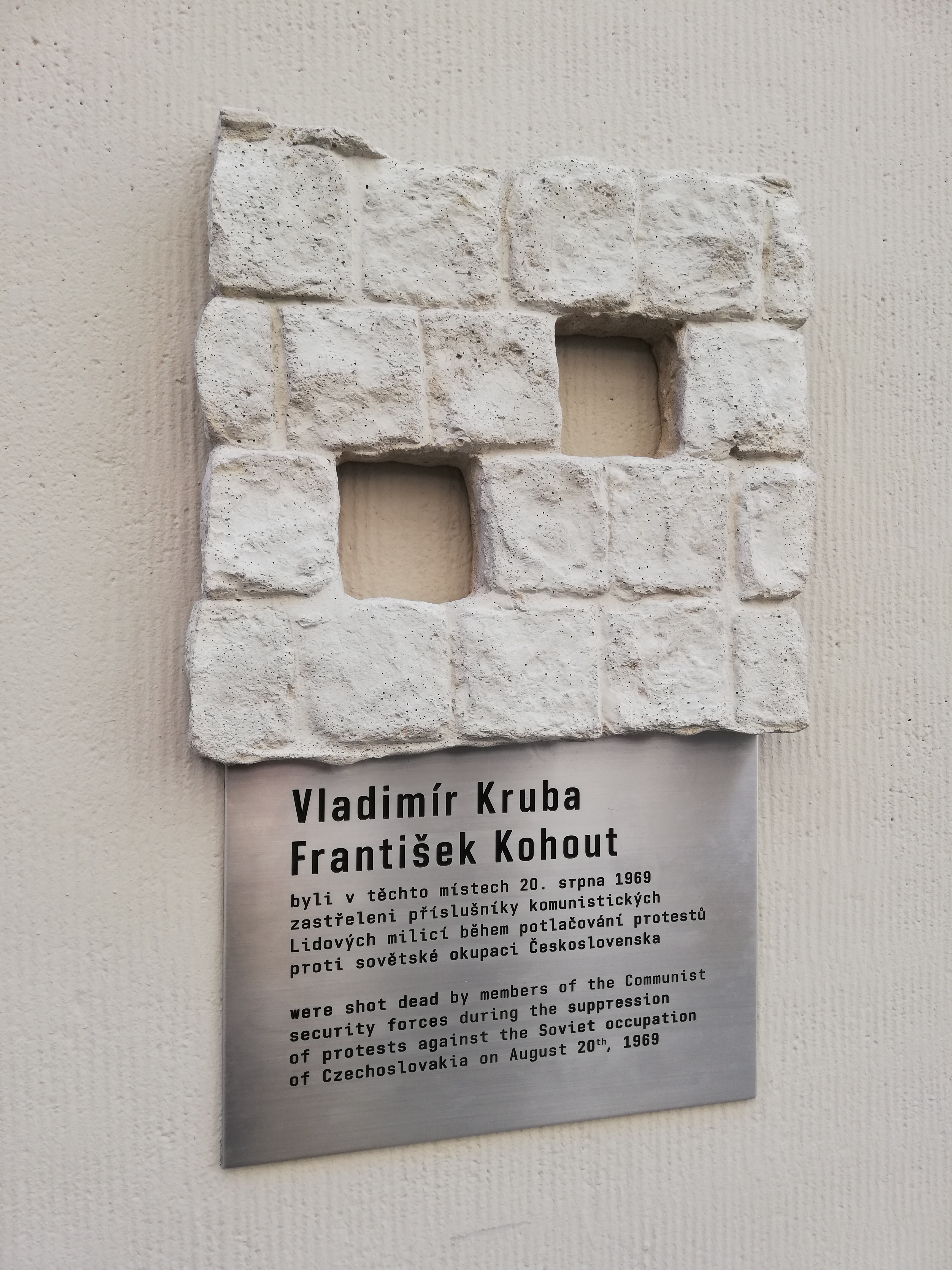 The commemorative plaque Vladimír Kruba (July 12, 1950 - August 20, 1969, Prague) and František Kohout (April 7, 1951 - August 20, 1969, Prague) were two of the three Prague victims in suppressing demonstrations (August 20, 1969 and July 21, 1969). August 1969) on the 1st anniversary of the occupation of Czechoslovakia by the Warsaw Pact troops (respectively, the 1st anniversary of the Soviet occupation). The plaque is located on the outer wall of the Grand Hotel Bohemia (at: Králodvorská 652/4, 110 00 Prague - Old Town, at the corner of Rybná and Králodvorská streets, GPS coordinates: GPS: 50 ° 5'15.898 "N, 14 ° 25 ' 35.439 "E, 50.0877494N, 14.4265108E The author of the memorial plaque is the sculptor Jakub Grec. The plaque also includes a concrete plastic relief of the prague pavement, which symbolizes (with two missing cubes) two wasted young human lives * English text on memorial plaque: Vladimír Kruba / František Kohout / were shot dead by members of the Communist / security forces during the suppression / of protests against the Soviet occupation / of Czechoslovakia on August 20–th, 1969.